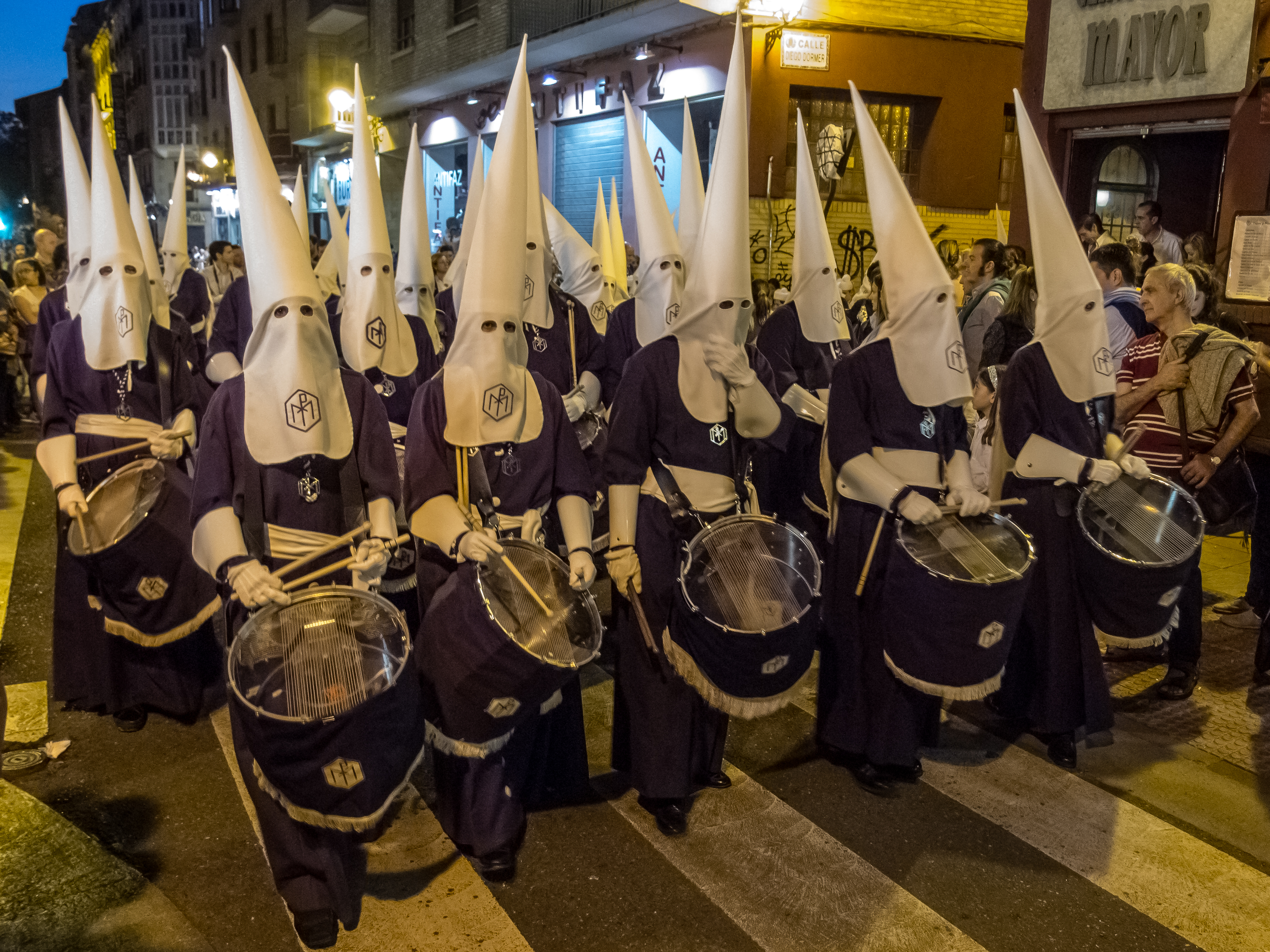 La cofradía del Descendimiento procesionó con su bonitos pasos en la noche del Jueves Santo. This is a photography of a Folklore festival in Spain (Wikidata id Q9075892).